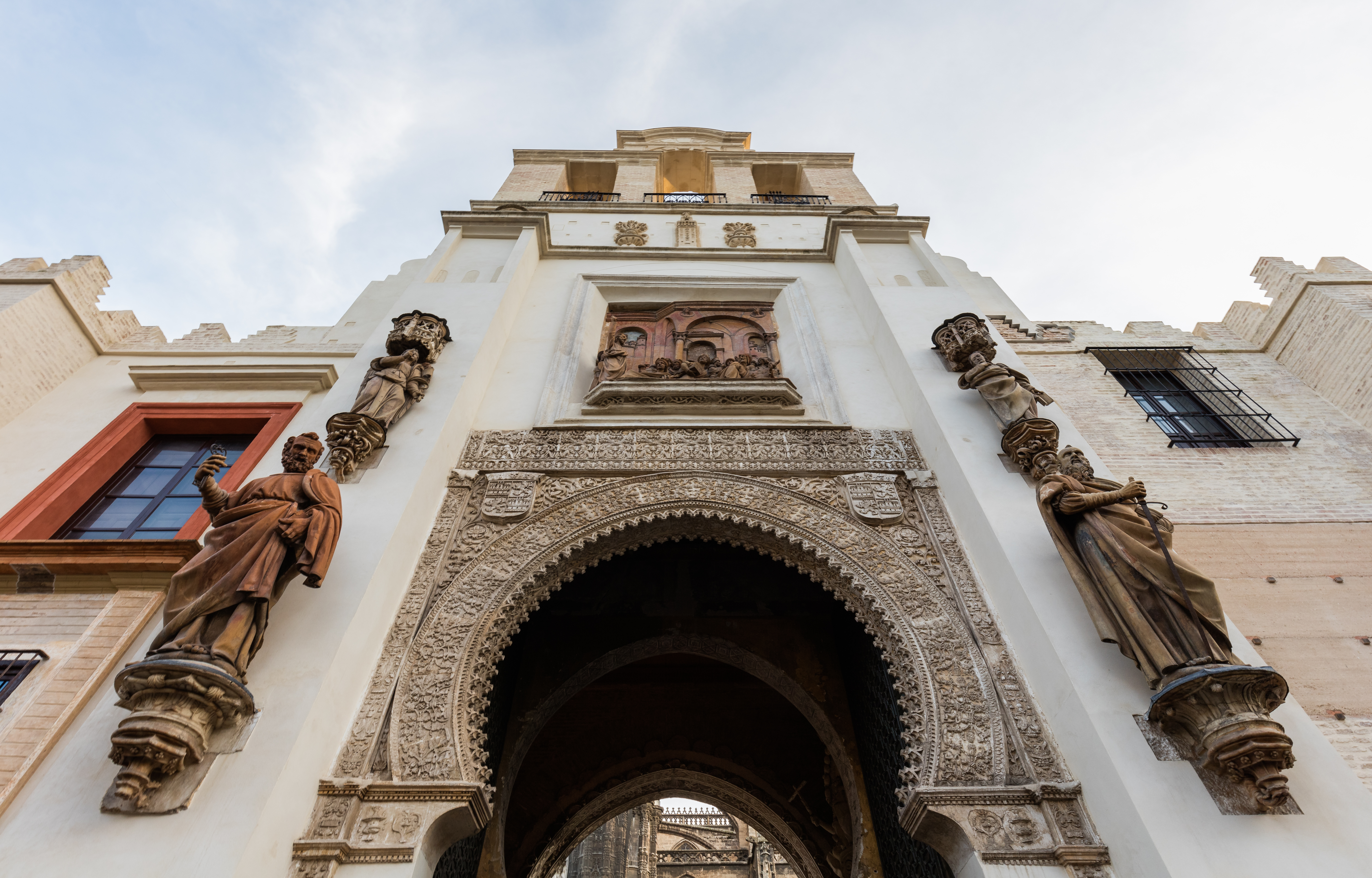 Puerta del Perdón, Cathedral of Seville, Seville, Spain